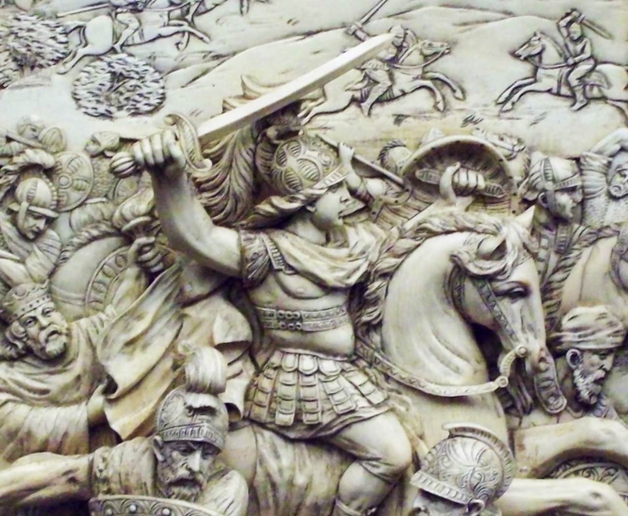 Alexander fighting and riding his horse Bucephalus.